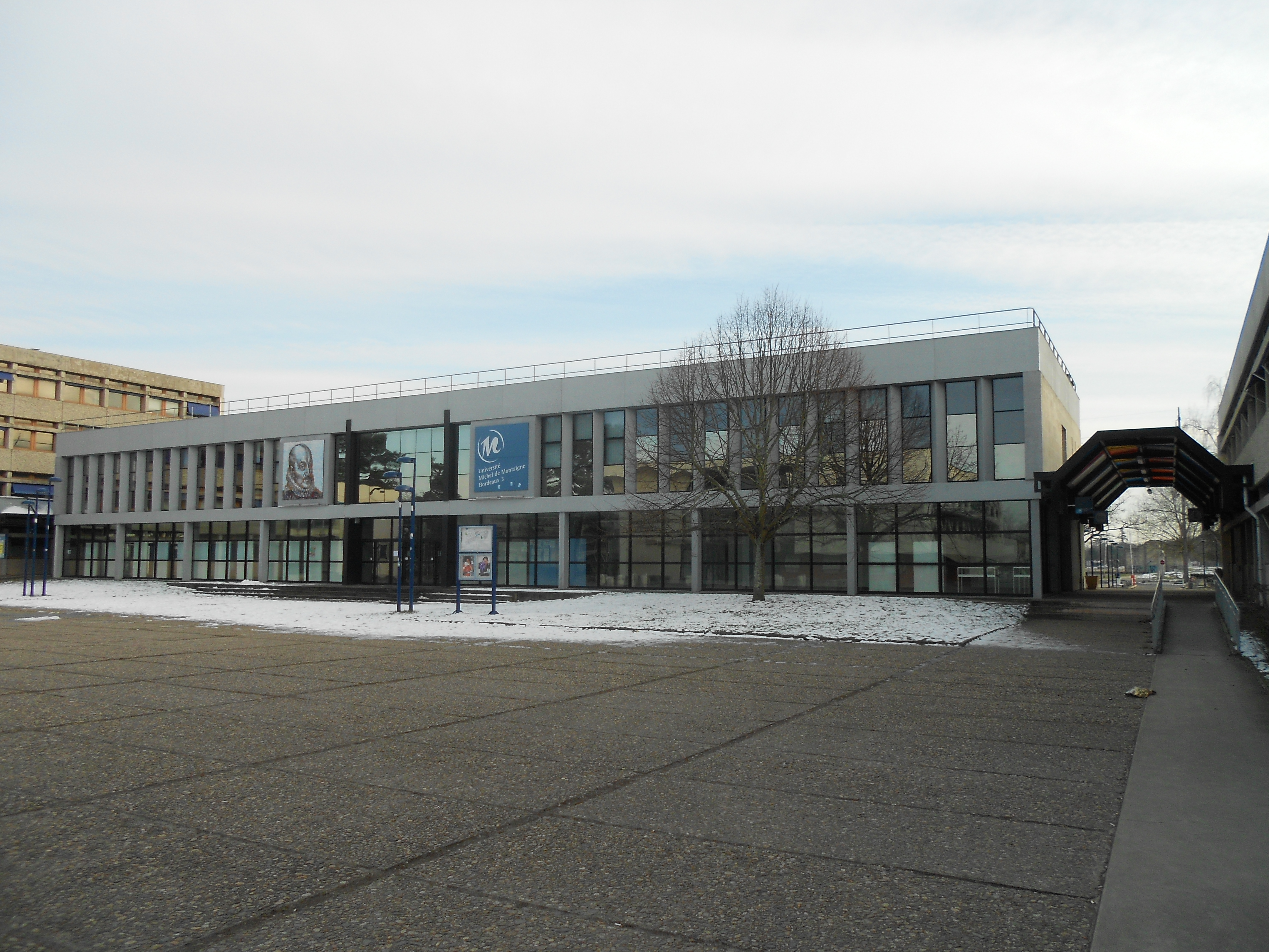 Administration building of Michel de Montaigne University (Bordeaux 3) in February 2012.